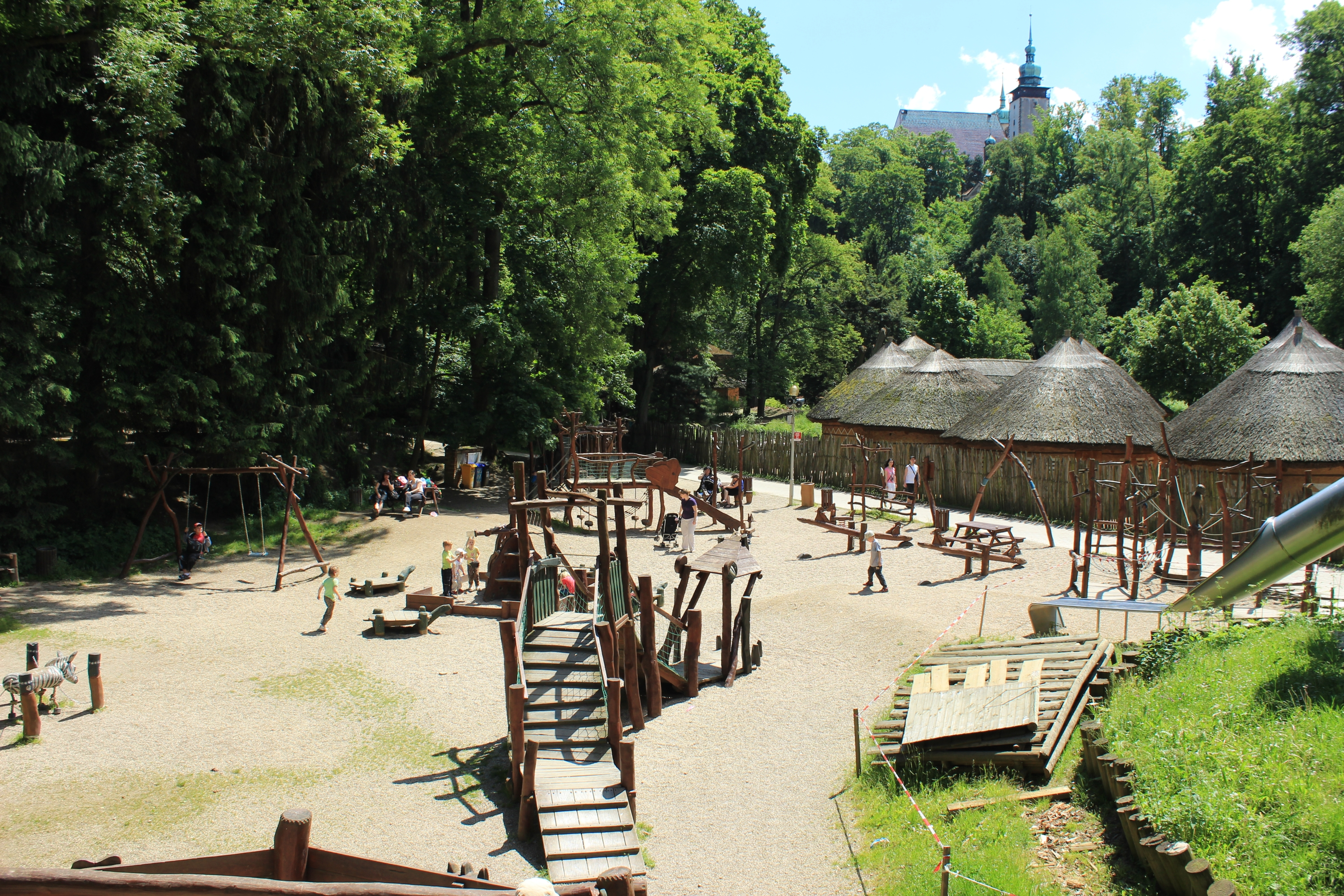 Playground for children in the Jihlava Zoo, Czech Republic.